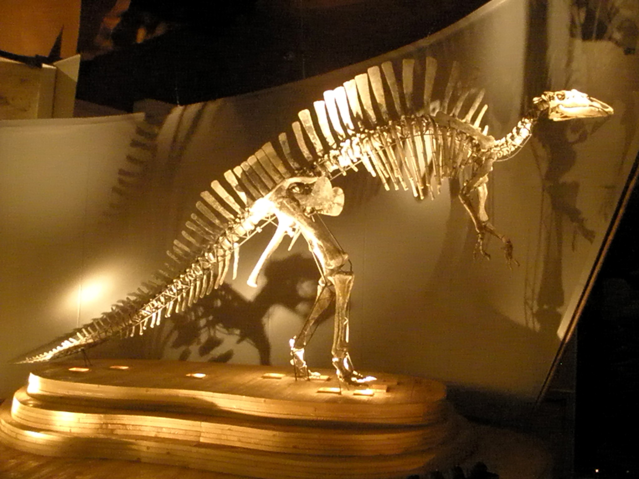 Took the photo at Museo di Storia Naturale di Venezia